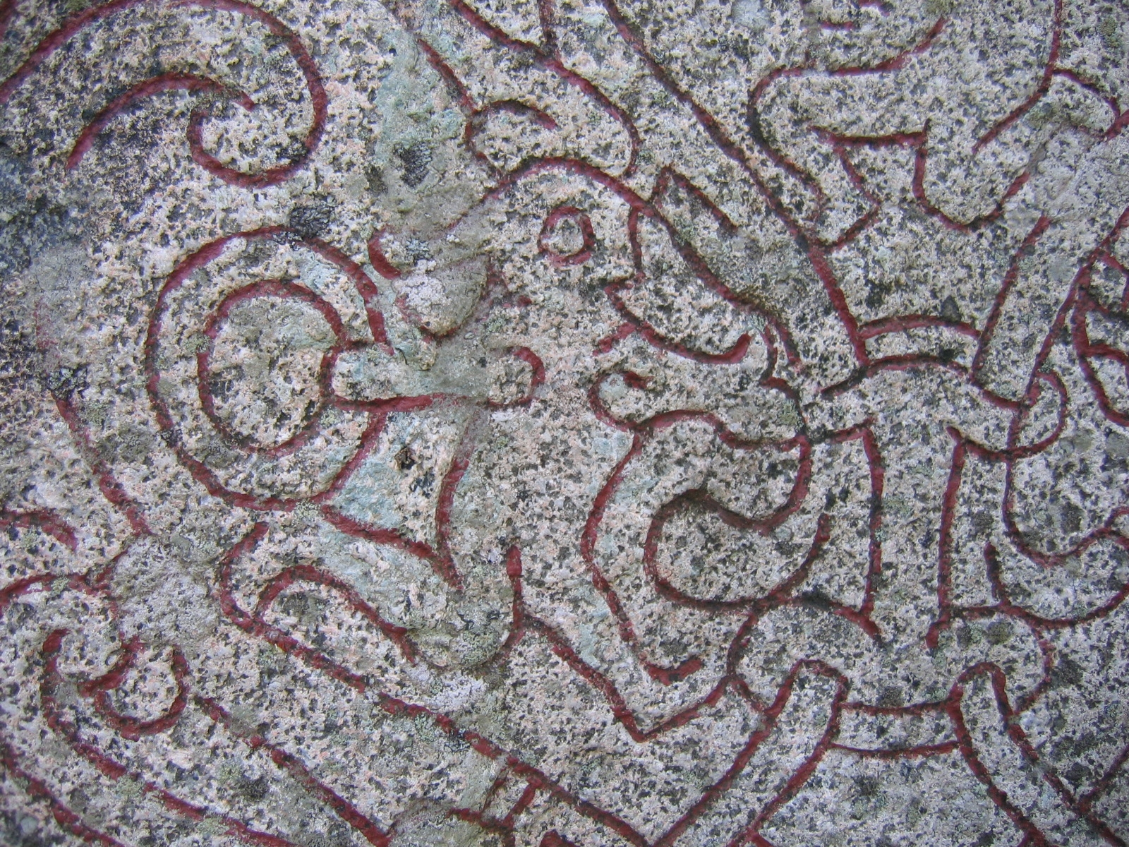 Runestone